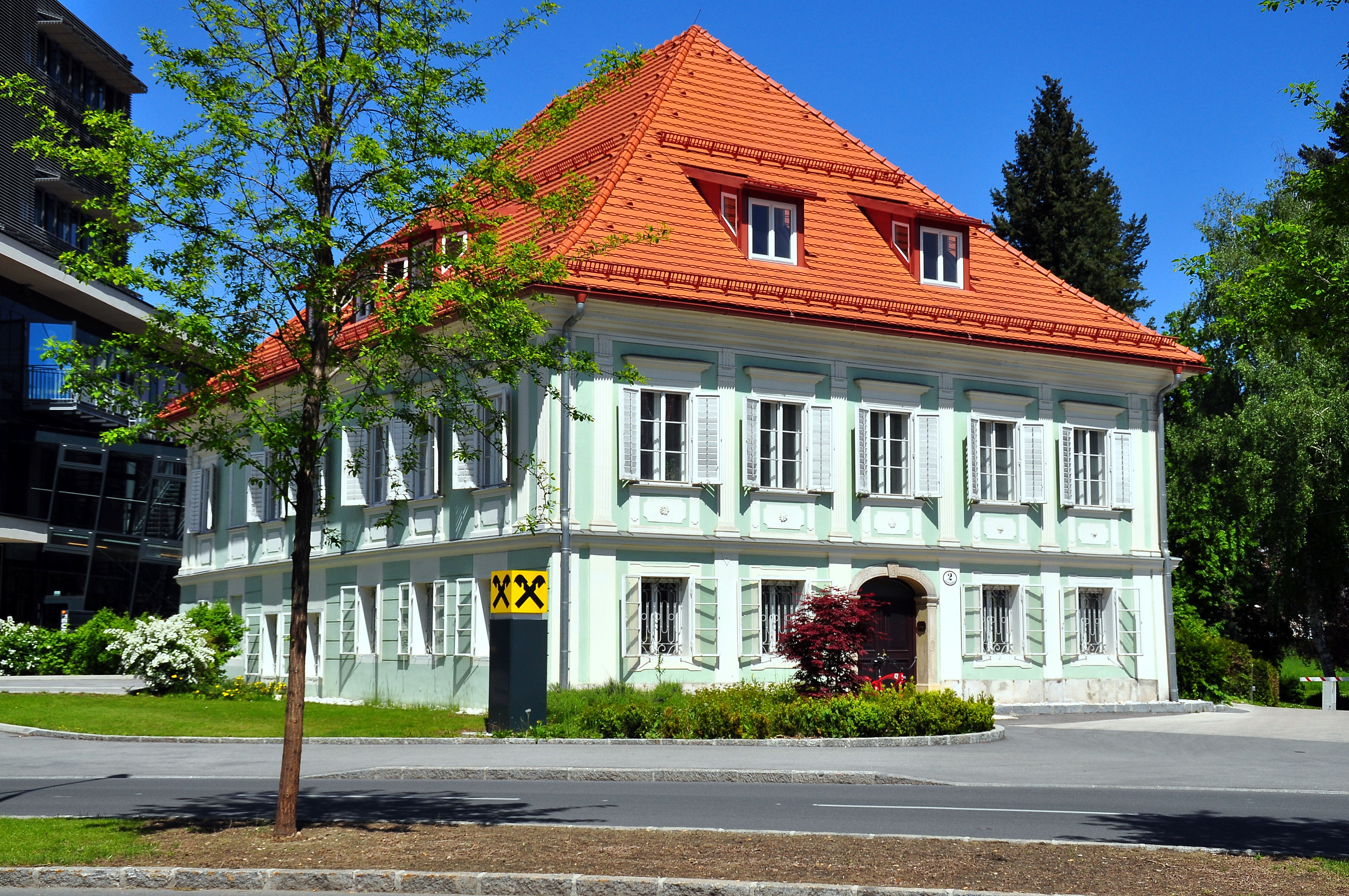 «Wodley» manor house, St. Veiter Ring 55, 5th district «St. Veiter Vorstadt», Klagenfurt, Carinthia, Austria, EU